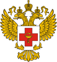 Russian Federation, emblem of the Ministry of Health and Social Development of the Russian Federation.